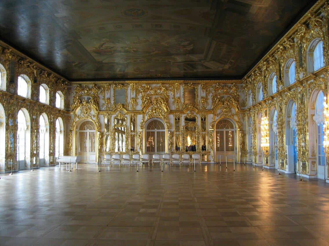 Pushkin (Russia), Great Hall of the Catherine Palace